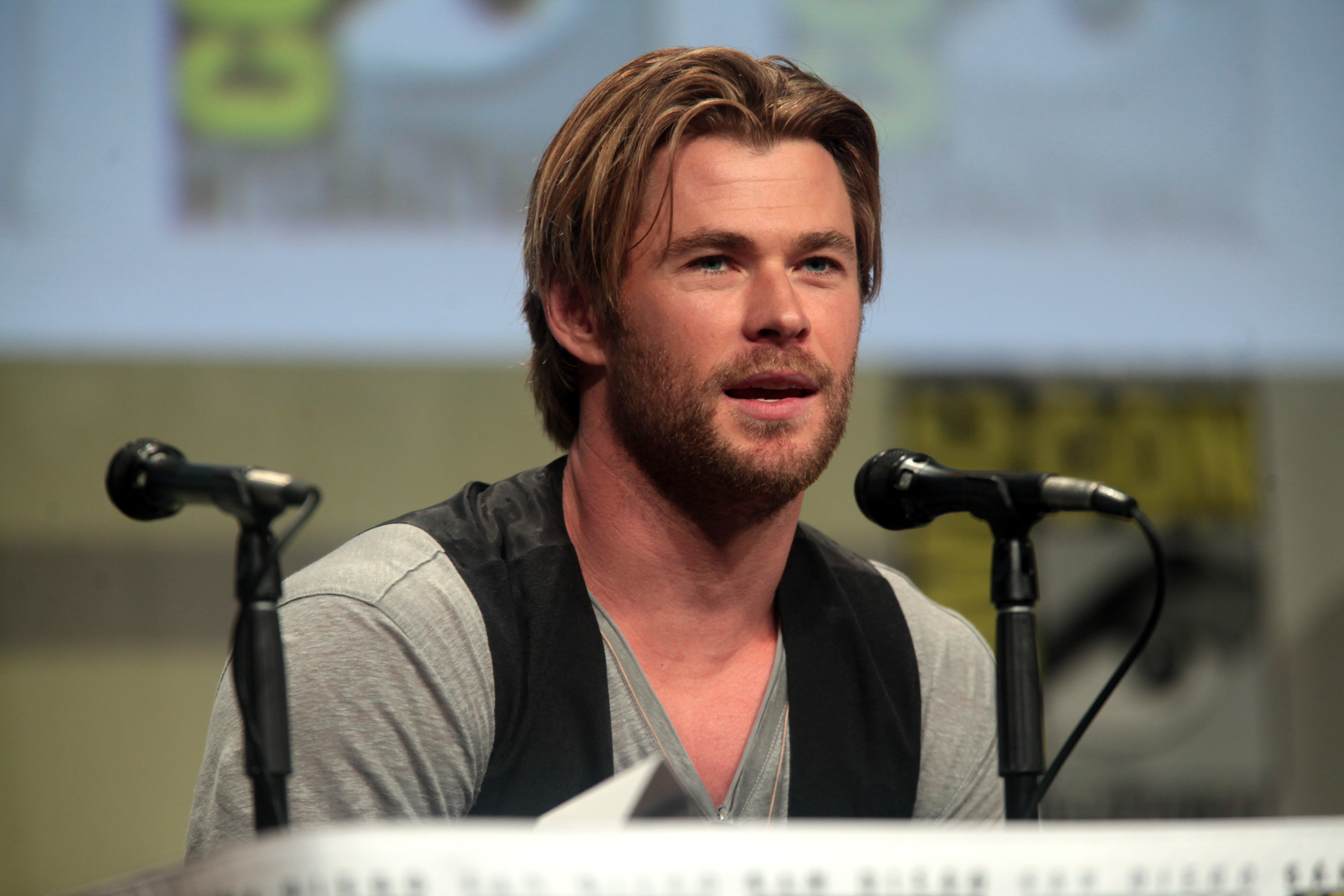 Chris Hemsworth speaking at the 2014 San Diego Comic Con International, for "Black Hat", at the San Diego Convention Center in San Diego, California.